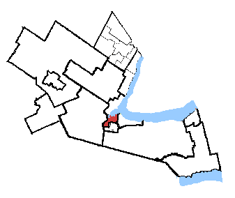 Map of the Hamilton Centre electoral district. Based on Earl Andrew's maps, created by SimonP.